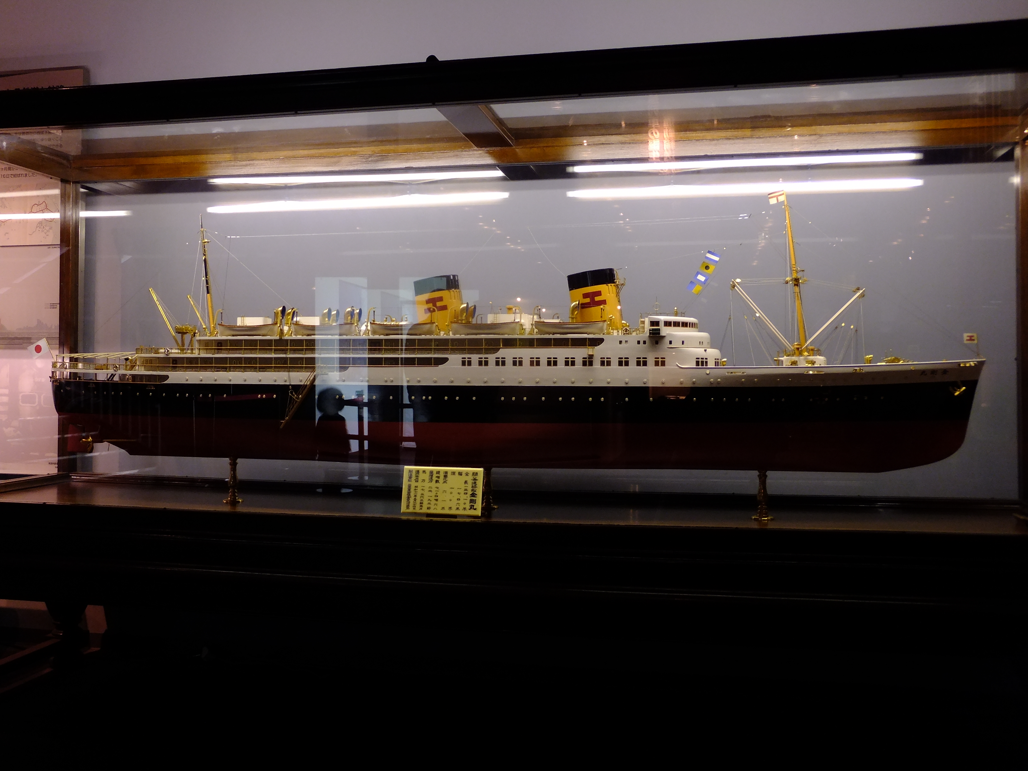 Photograph of a model of the Ministry of Railways ferry Kongo Maru at the Railway Museum.